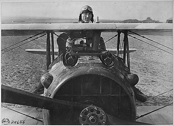 First Lieutenant E. V. [Eddie] Rickenbacker, 94th Aero Squadron, American ace, standing up in his Spad plane. Near Rembercourt, France.